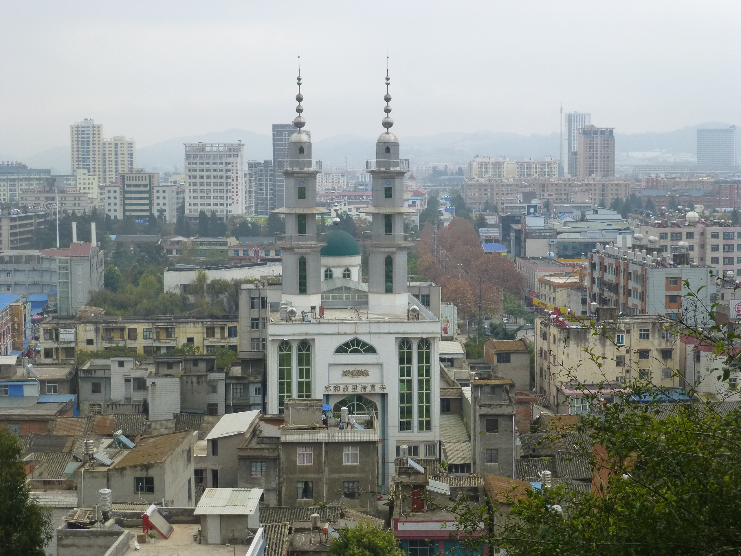 Zheng He Hometown Mosque in Kunyang, Yunnan